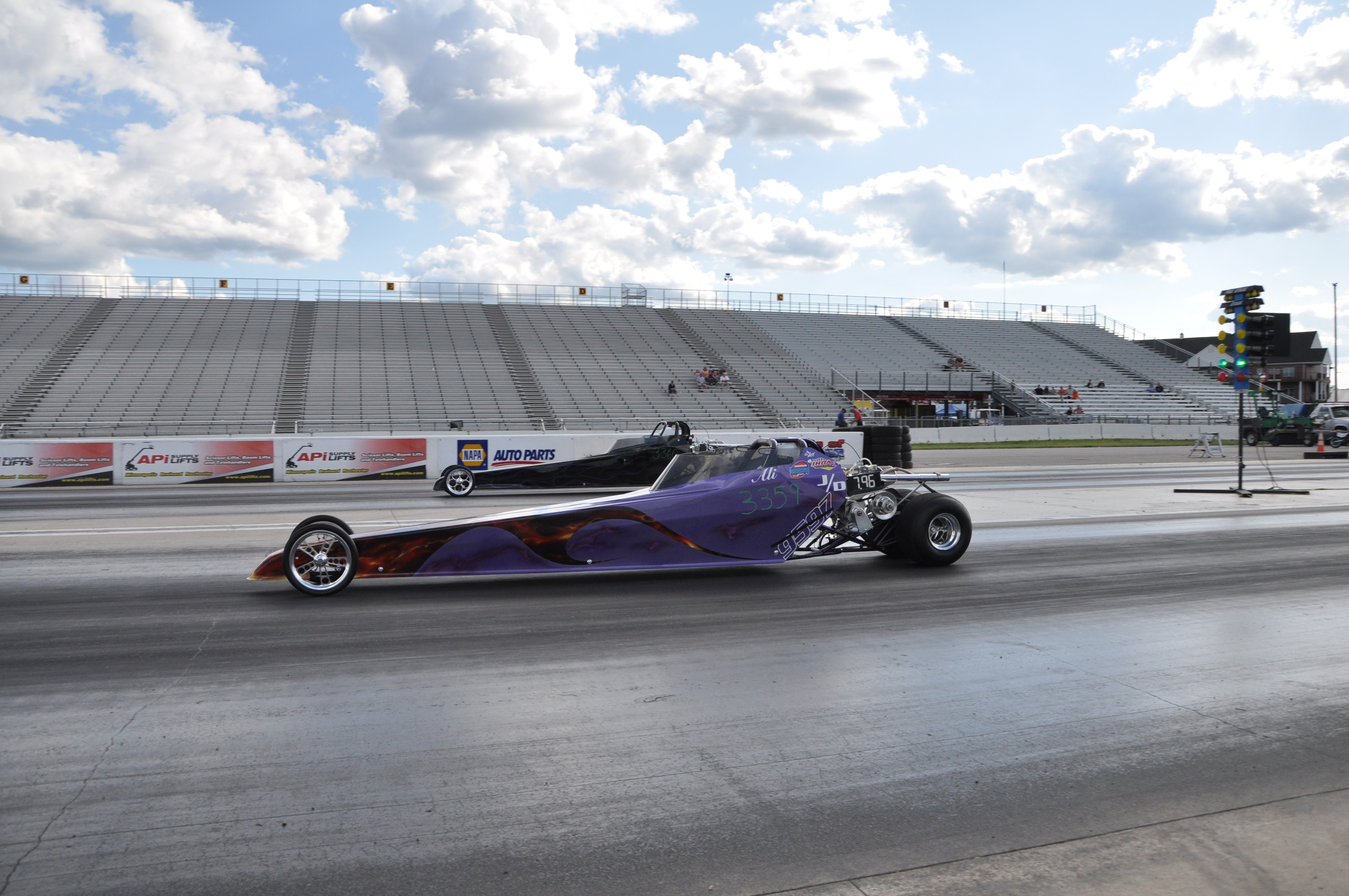 2 Jr.Dragsters Going Racing down the track at BIR, the same track the Pro's like John Force race on.